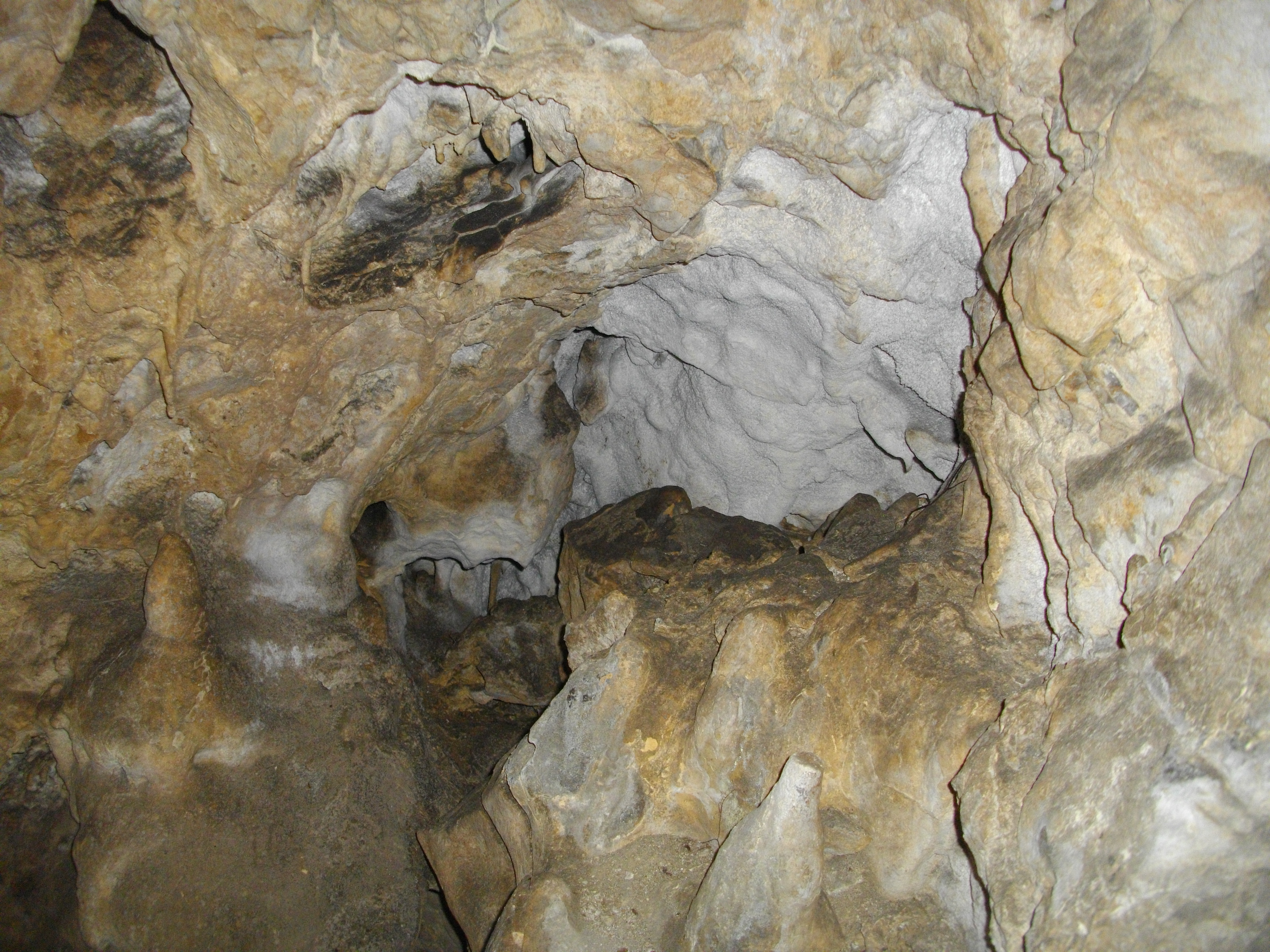 Lishkov Cave